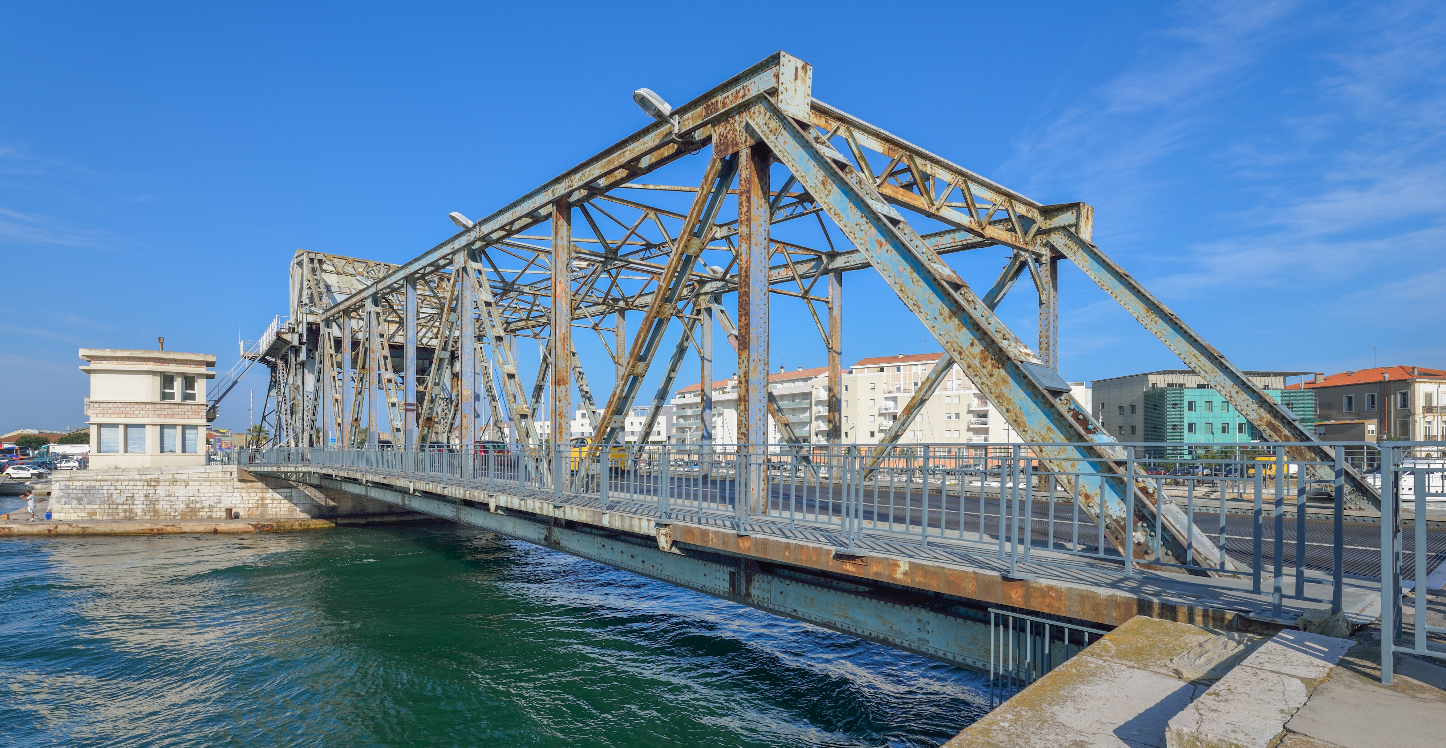 Tivoli Bridge (bascule bridge), in closed position. From the François Maillol Embankment. Construction of the bridge between 1949 and 1951 by the Établissements Daydé. Sète, Hérault, France.